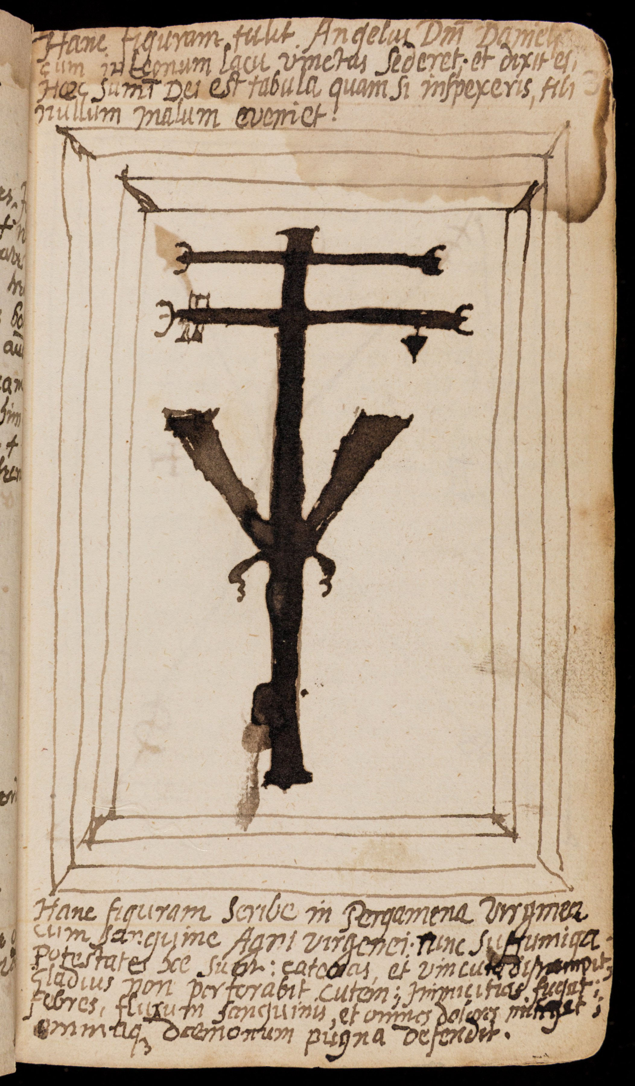 Page 7 of the Book of Magical Charms, depicting a strange kind of cross